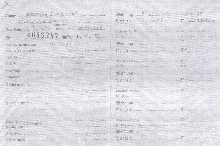 Registration card Ferdinand Porsche NSDAP